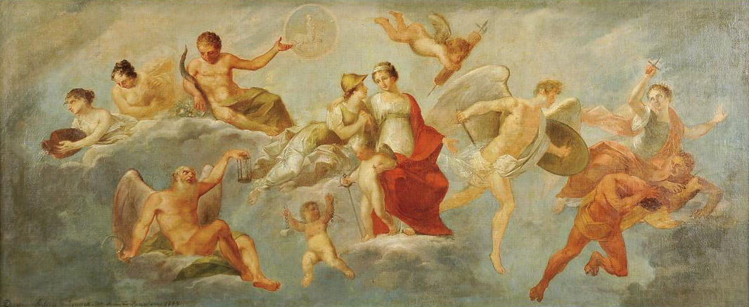 "Gods in the Olympus" (1794), by Domingos Sequeira.